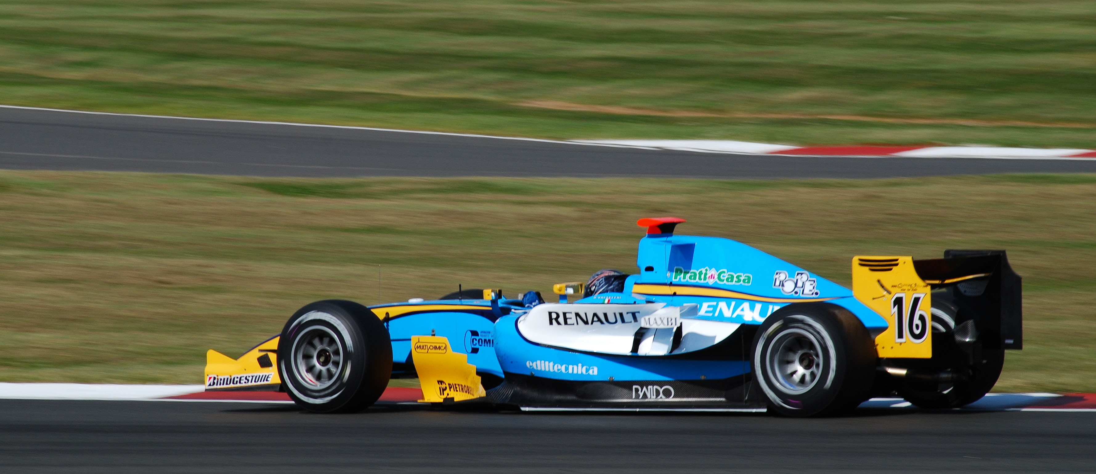 Davide Valsecchi driving for Durango at the Silverstone round of the 2008 GP2 Series season.